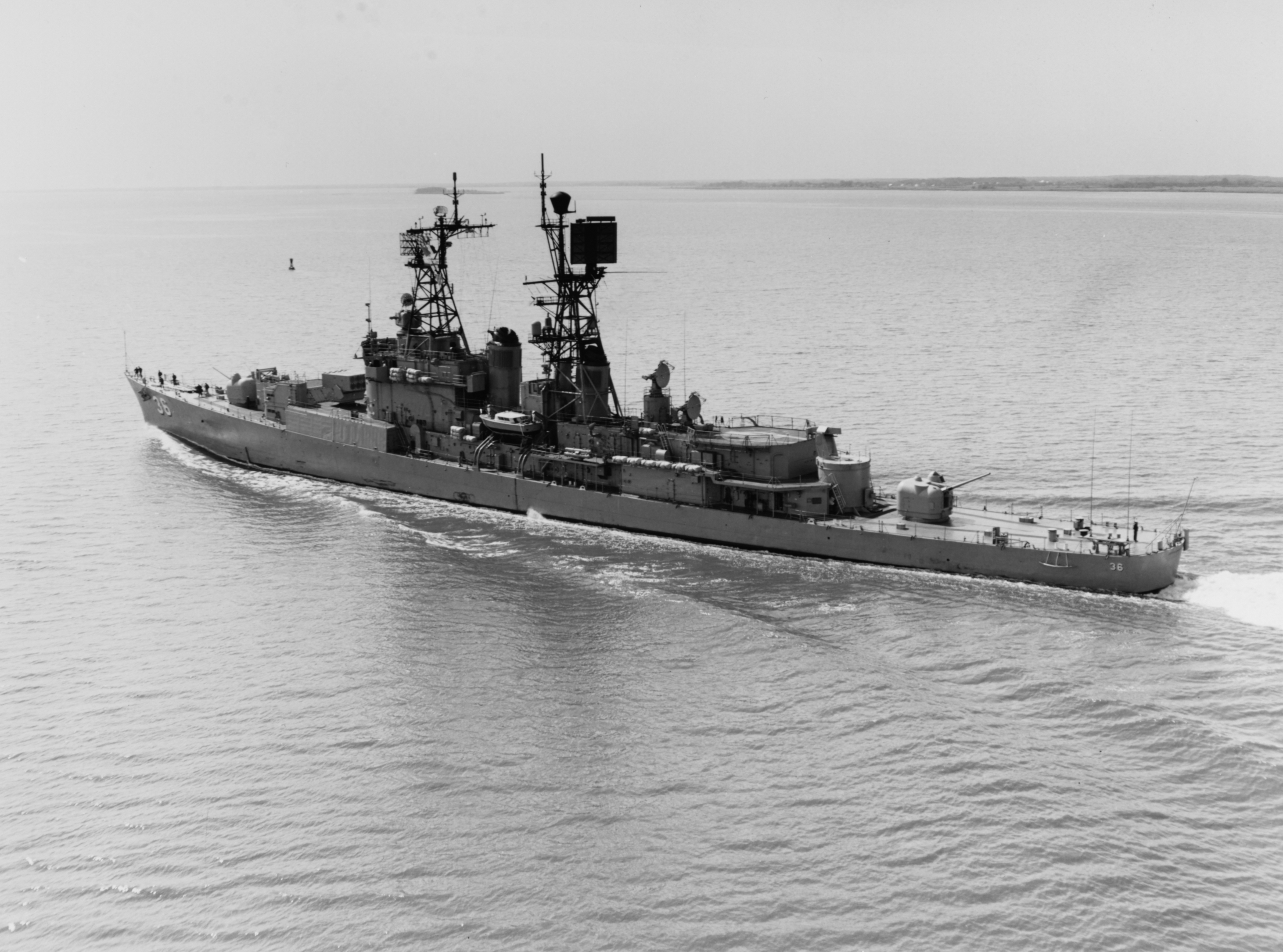 The U.S. Navy guided missile destroyer USS John S. McCain (DDG-36) in the Delaware River (USA) on 30 September 1969. On 24 June 1966, John S. McCain had been decommissioned and entered the Philadelphia Naval Shipyard for conversion to a guided missile destroyer. She was recommissioned on 6 September 1969 and redesignated DDG-36 (from DL-3).